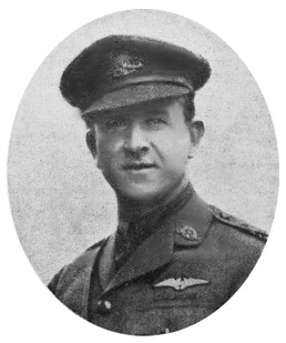 "The Late Col. Oswald Watt" from obituary in Pastoral Review, 16 July 1921, pp. 533-34